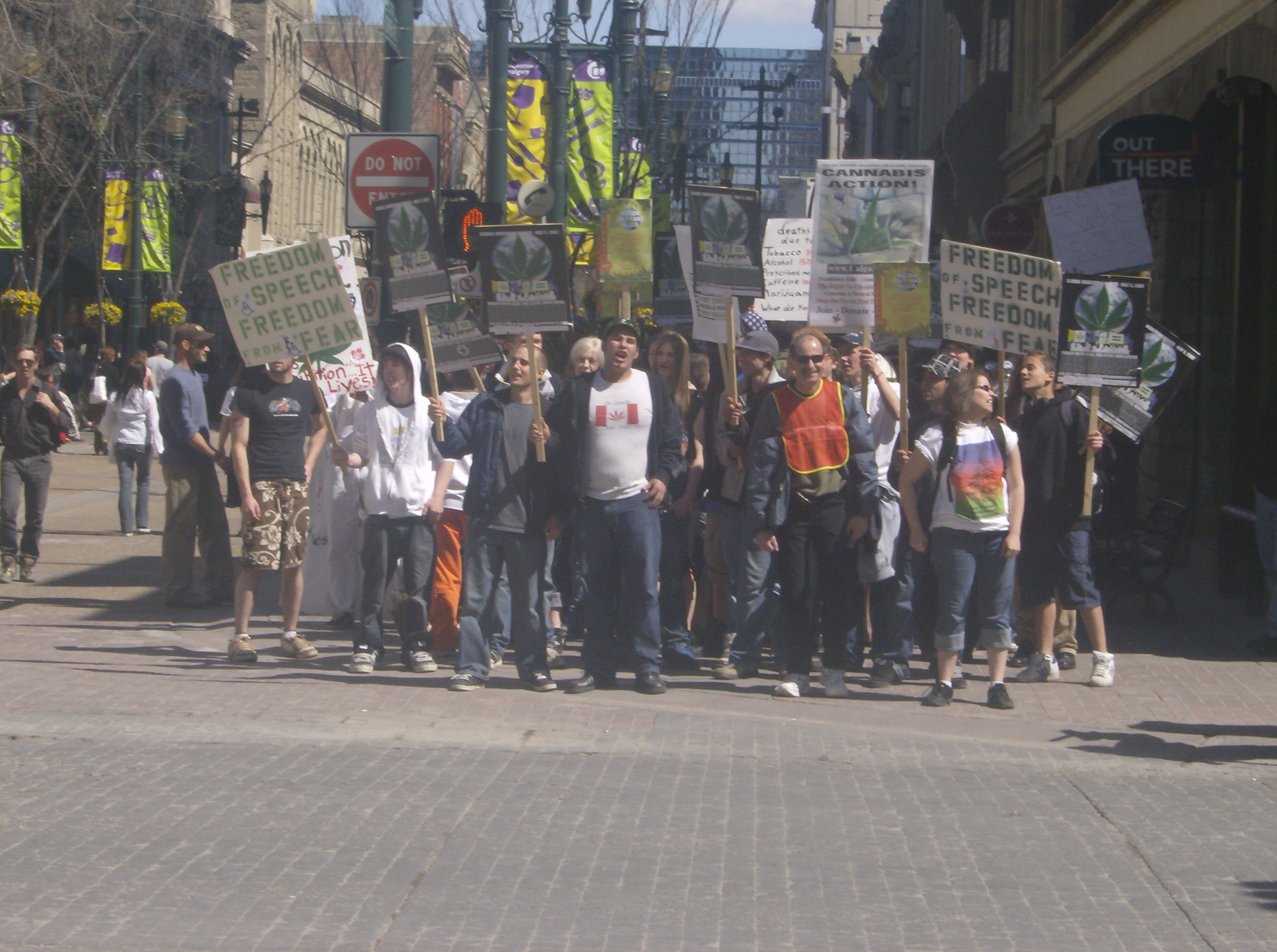 This was taken at the Annual Global Marijuana March in Calgary, Alberta, Canada, which started and ended at City Hall. Grant Wayne Krieger, known for his involvement in a Supreme Court Case, was a March leader, and is wearing bright orange.